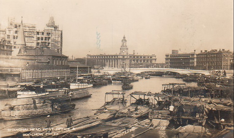 SuzhouCreek in the 1920s